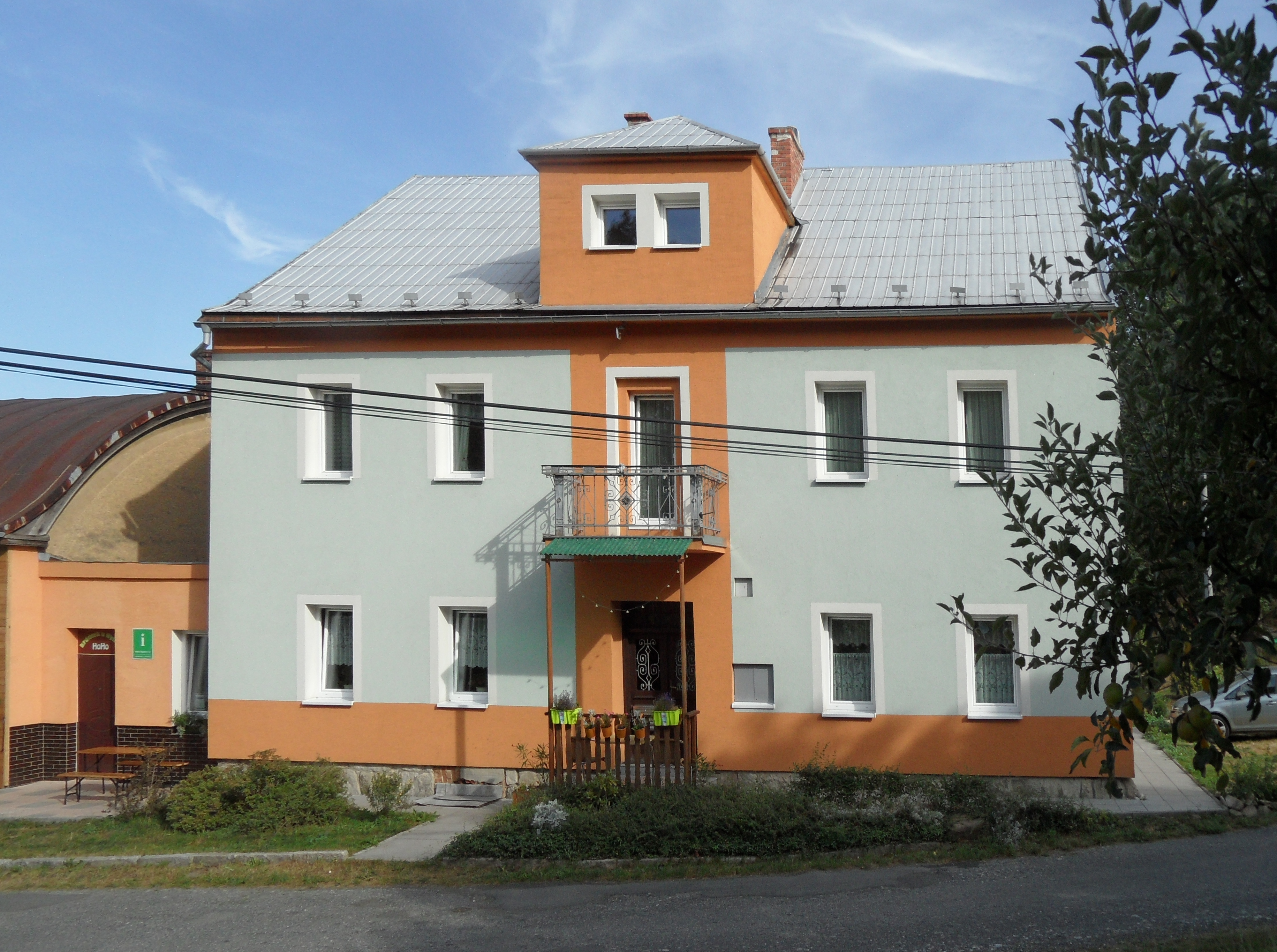 Horní Hoštice J. Small shop, Information and Pension. Jeseník District, the Czech Republic.